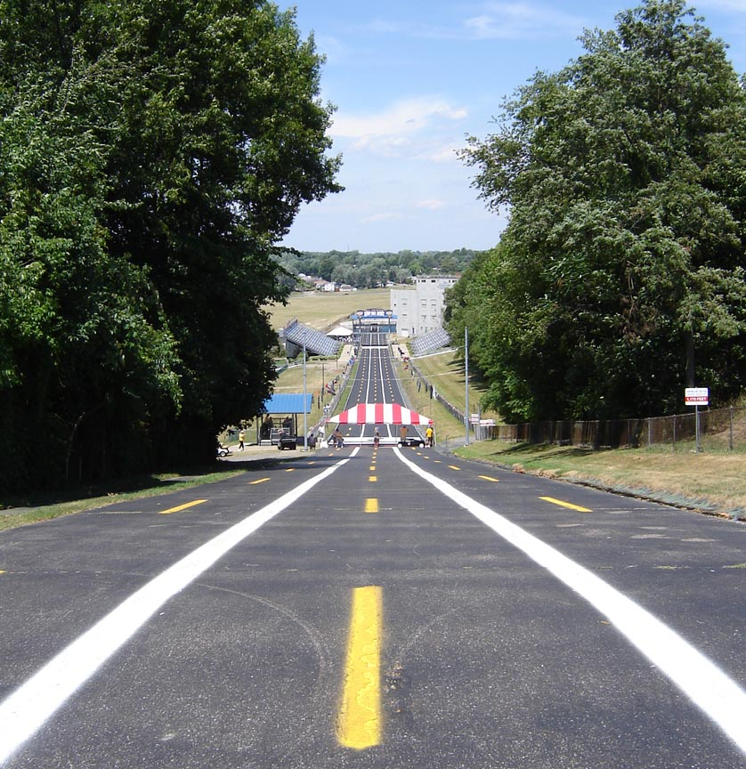 Derby Downs in Akron.